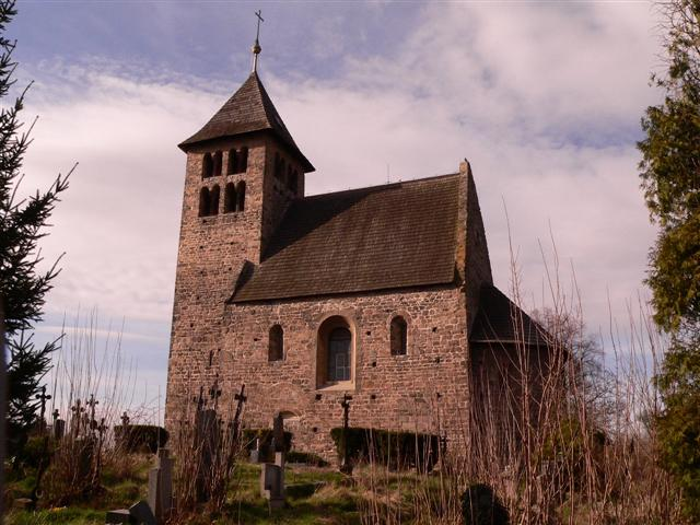 Saint Peter´s Church